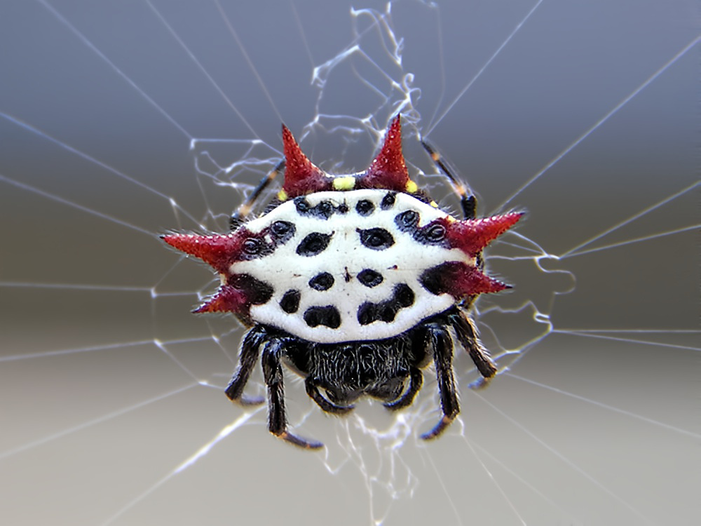 Spiny orb-weaver spider (Gasteracantha cancriformis).